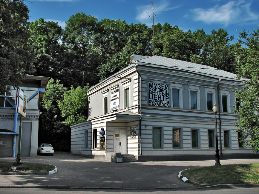 Andrei Sakharov museum in Moscow.